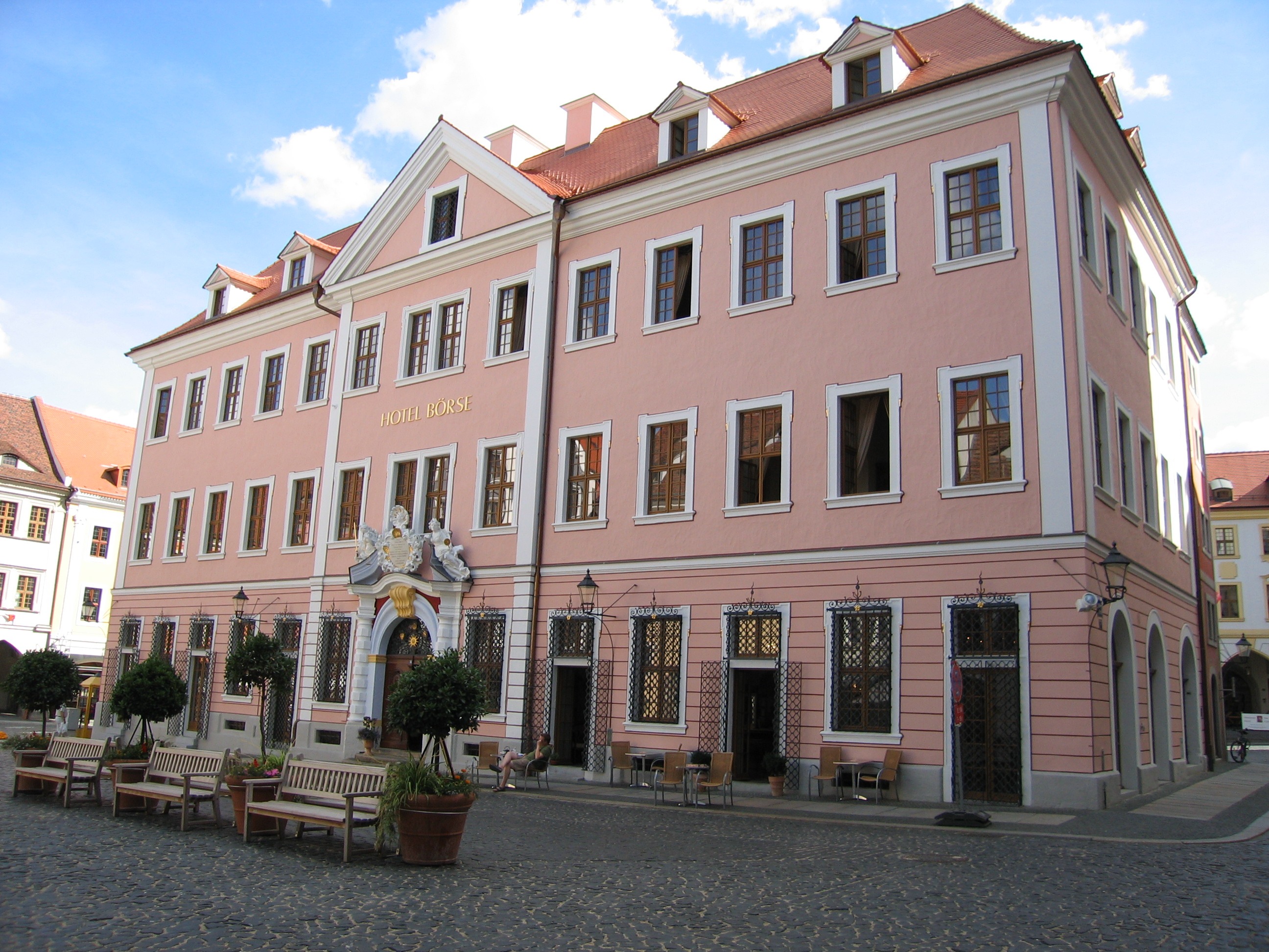 hotel “Börse”, Görlitz, Saxony